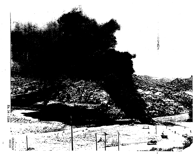 This is a picture of Rocketdyne burning waste at the Santa Susana Field Laboratory.